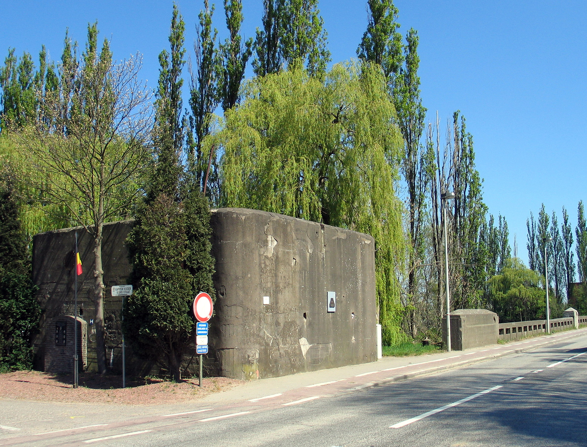 Bunker at the Vroenhoven bridge